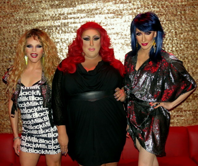 Detox, William and Vicky Vox at Venue Nightclub in Houston, TX.